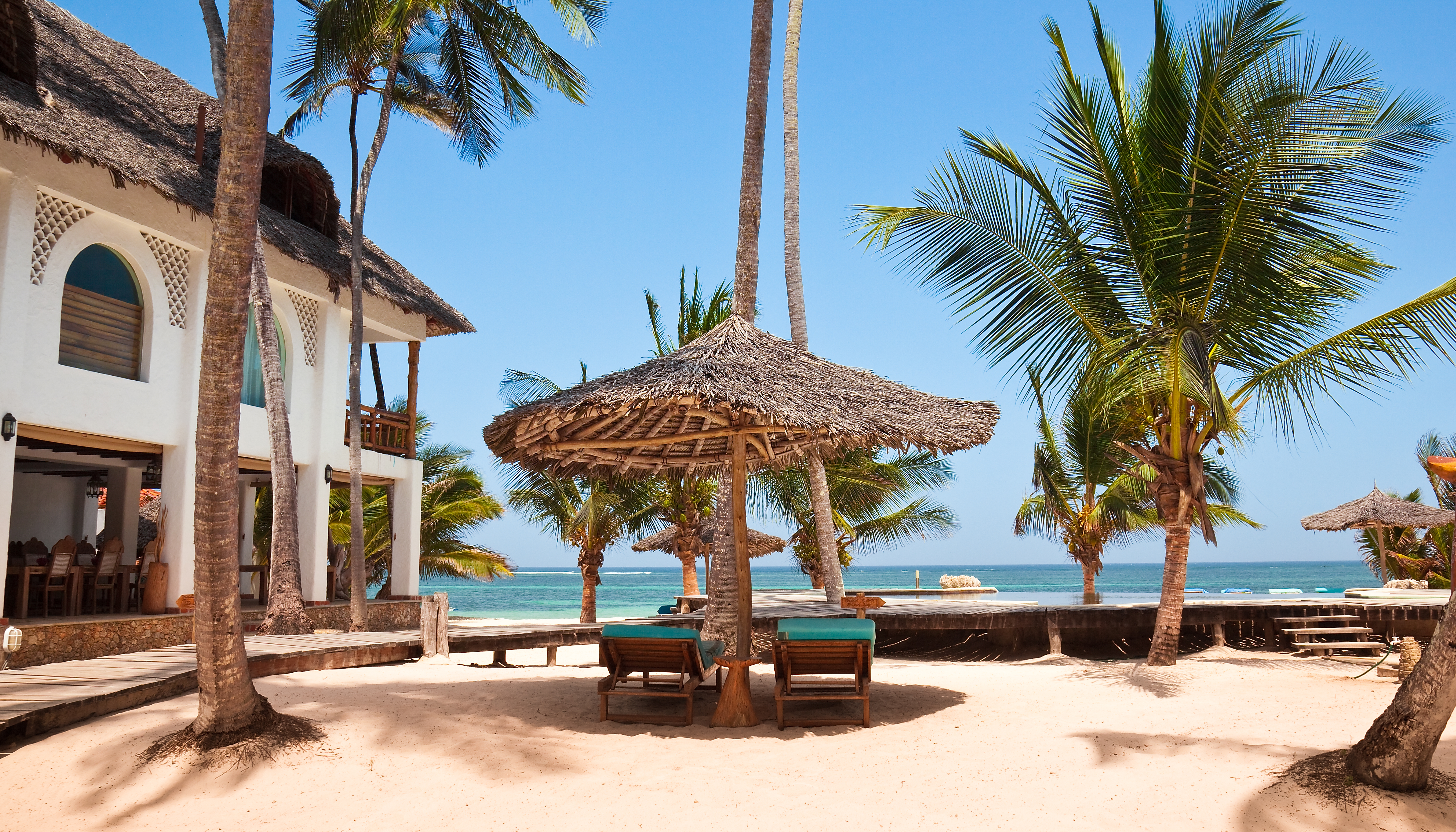 A pairs of loungers in the shade, overlooking the Indian Ocean at WaterLovers, Diani Beach, Mombasa.